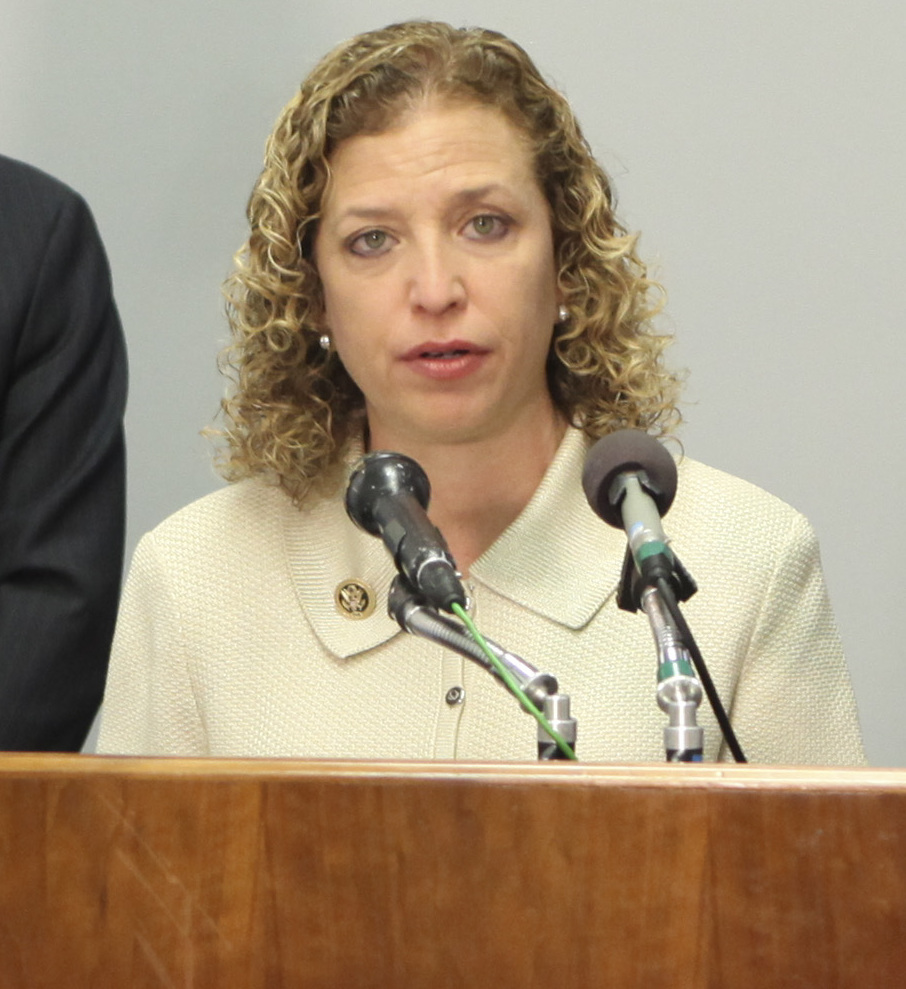 Rep. Wasserman Schultz address the media at the 2015 Summer Kickoff event.